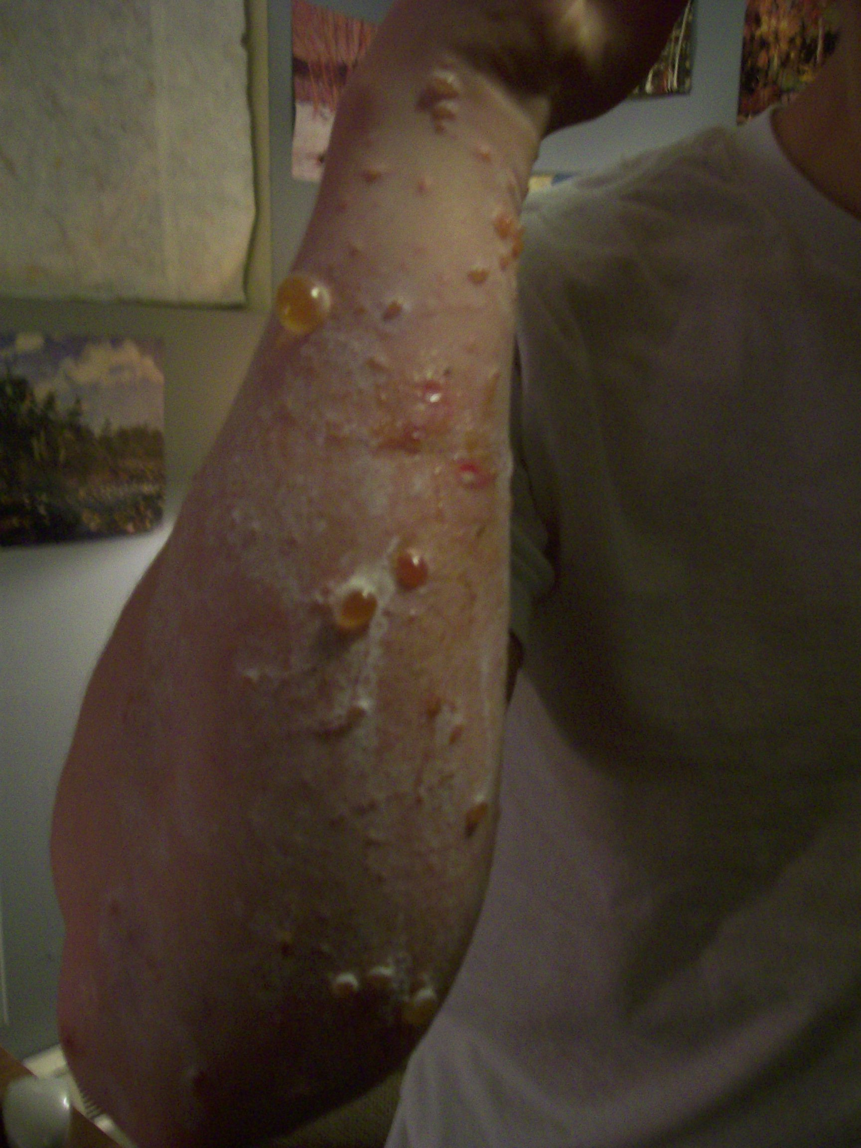 Blistering resultant from poison-ivy contact